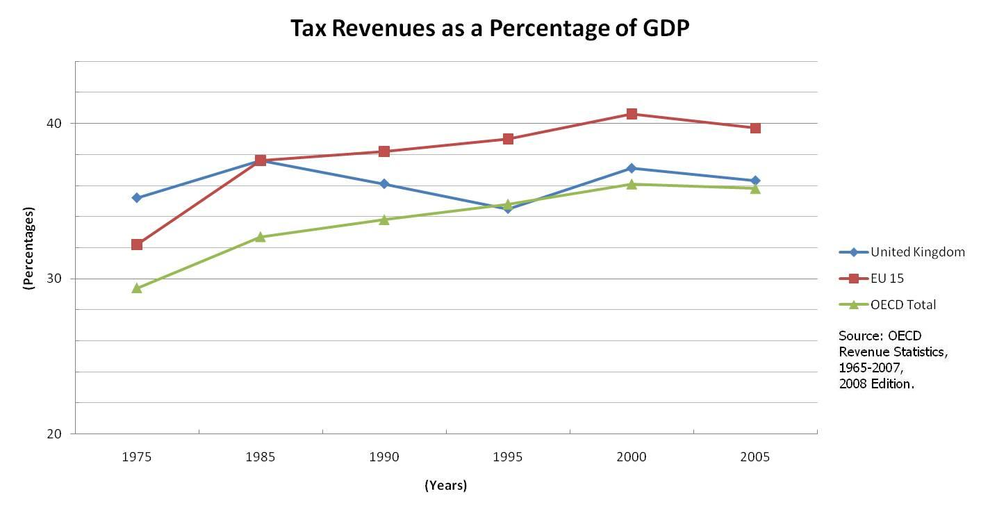 This image portrays total tax revenue as a percentage of GDP from 1975 to 2005 for the United Kingdom in comparison to both the unweighted average for the OECD as well as for the EU 15. Note that the EU 15 area countries are: Austria, Belgium, Denmark, Finland, France, Germany, Greece, Ireland, Italy, Luxembourg, Netherlands, Portugal, Spain, Sweden and United Kingdom. Further information is available here at